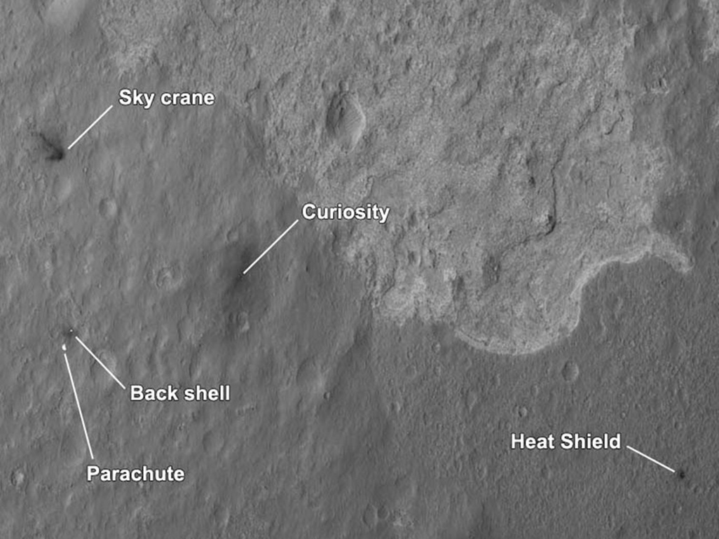 Scene of the Martian Landing of Mars Science Laboratory The four main pieces of hardware that arrived on Mars with NASA's Curiosity rover were spotted by NASA's Mars Reconnaissance Orbiter (MRO). The High-Resolution Imaging Science Experiment (HiRISE) camera captured this image about 24 hours after landing. The large, reduced-scale image points out the strewn hardware: the heat shield was the first piece to hit the ground, followed by the back shell attached to the parachute, then the rover itself touched down, and finally, after cables were cut, the sky crane flew away to the northwest and crashed. Relatively dark areas in all four spots are from disturbances of the bright dust on Mars, revealing the darker material below the surface dust. Around the rover, this disturbance was from the sky crane thrusters, and forms a bilaterally symmetrical pattern. The darkened radial jets from the sky crane are downrange from the point of oblique impact, much like the oblique impacts of asteroids. In fact, they make an arrow pointing to Curiosity. This image was acquired from a special 41-degree roll of MRO, larger than the normal 30-degree limit. It rolled towards the west and towards the sun, which increases visible scattering by atmospheric dust as well as the amount of atmosphere the orbiter has to look through, thereby reducing the contrast of surface features. Future images will show the hardware in greater detail. Our view is tilted about 45 degrees from the surface (more than the 41-degree roll due to planetary curvature), like a view out of an airplane window. Tilt the images 90 degrees clockwise to see the surface better from this perspective. The views are primarily of the shadowed side of the rover and other objects. The image scale is 39 centimeters (15.3 inches) per pixel.